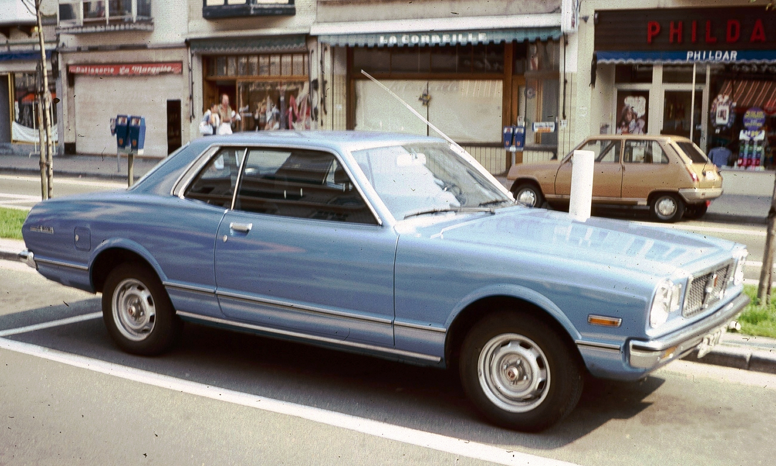 Toyota Cressida Coupe in one of the Belgian coastal resorts, on the road opposite the sea front / coastal sand dunes